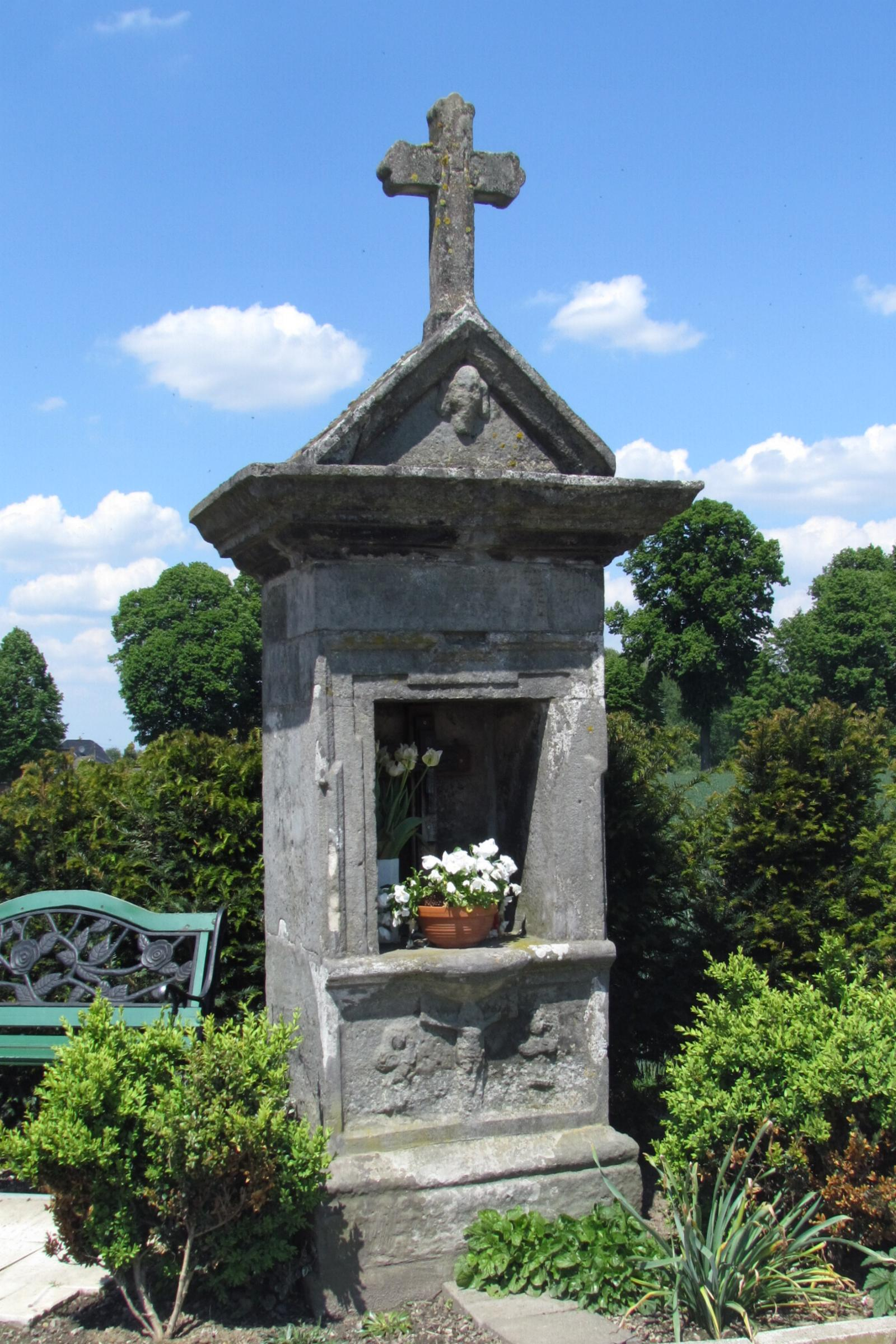 This is a photograph of an architectural monument.It is on the list of cultural monuments of Korschenbroich